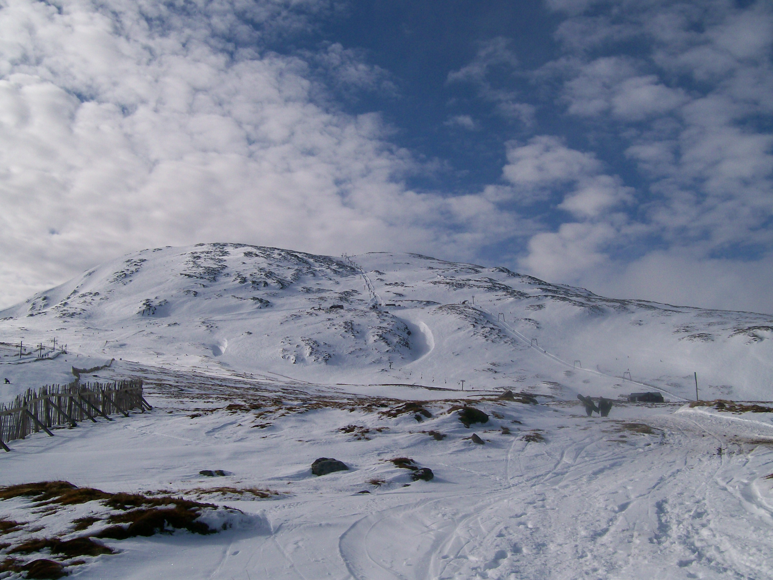 Glencoe Ski Centre from the top of the access chair lift